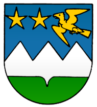 coat of arms city of Evolène (Switzerland)